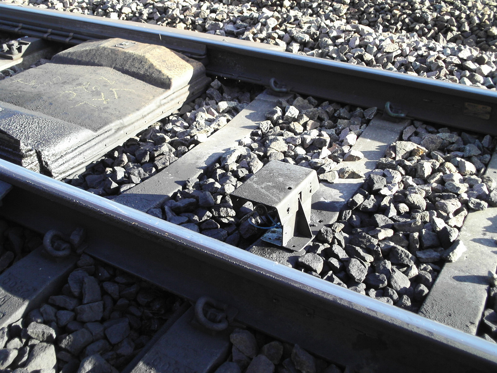 Lubricator, Swedish railway